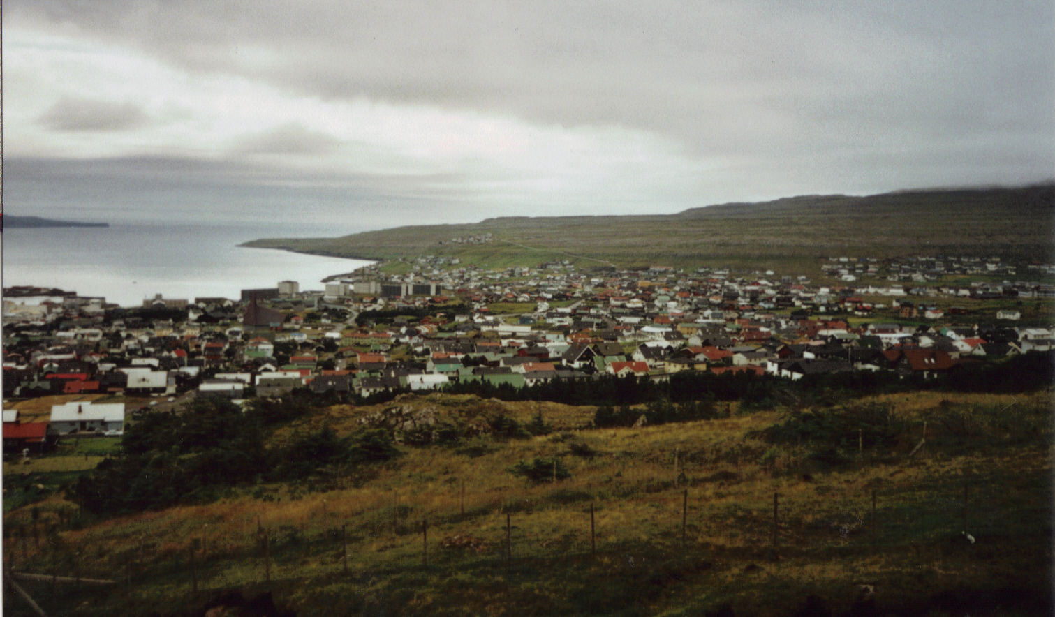 Í Kerjum Forest (Western part), Tórshavn, Faroe Islands